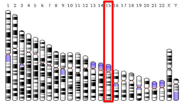 Chromosomes of C15orf39